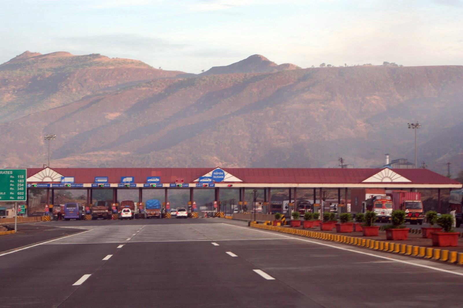 Talegaon Toll Booth.